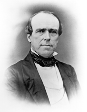 Portrait of Senate Lucius Lyon of Michigan